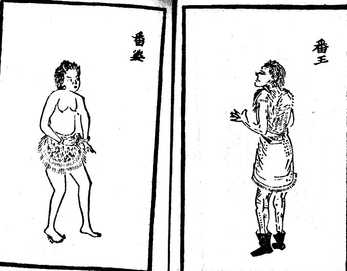 Taiwanese_aborigines(1895). Chinese woodcut from 1895 depicting a Taiwanese aborigine tribe woman (番婆) and tribe leader (番王).